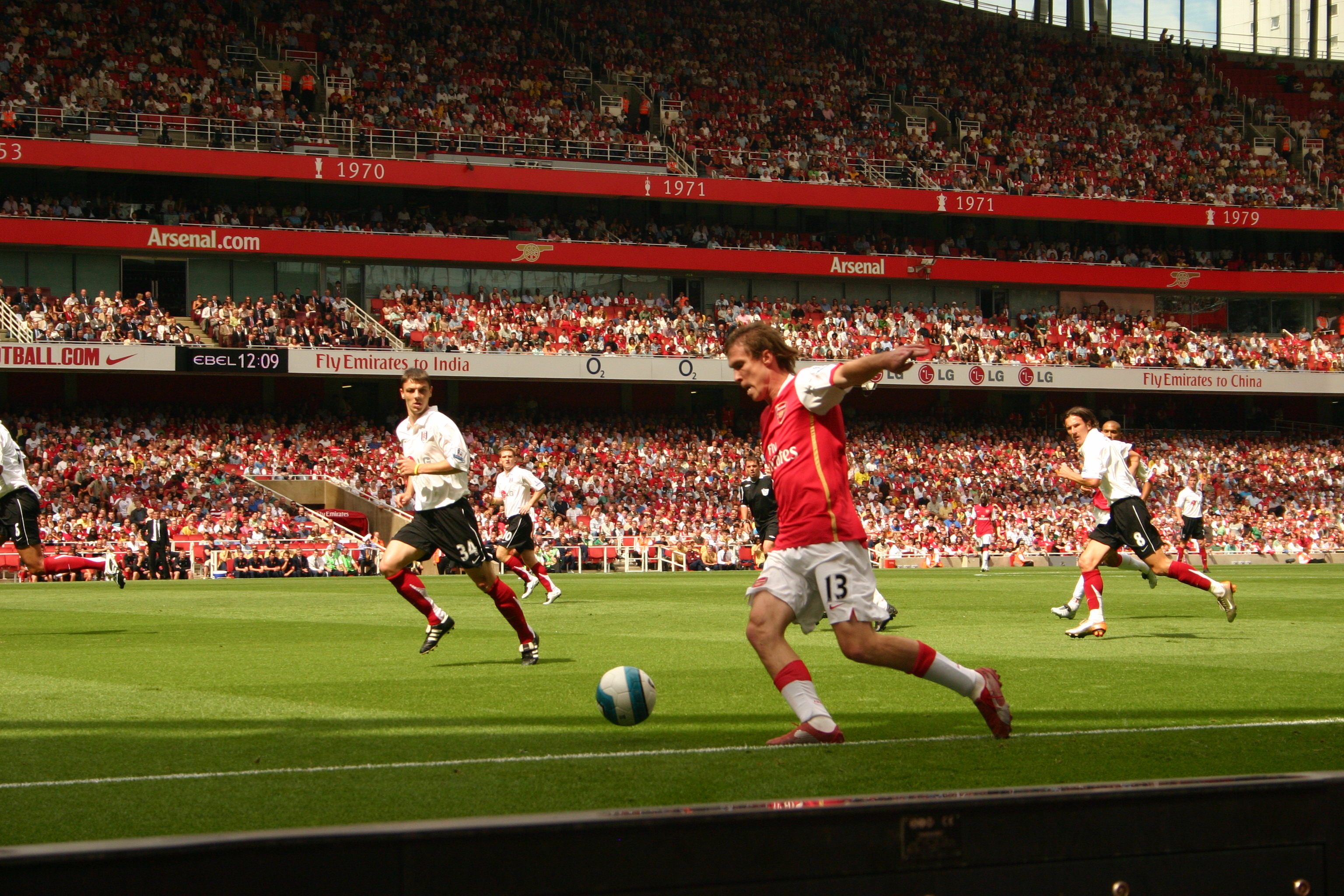 Alexander Hleb of Arsenal dribbles along the sideline, Chris Baird of Fulham defending.